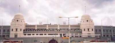 The original Wembley Stadium (demolished in 2003) in London, featuring the Twin Towers.